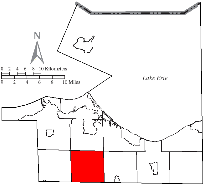 Made by the US Census and modified by myself